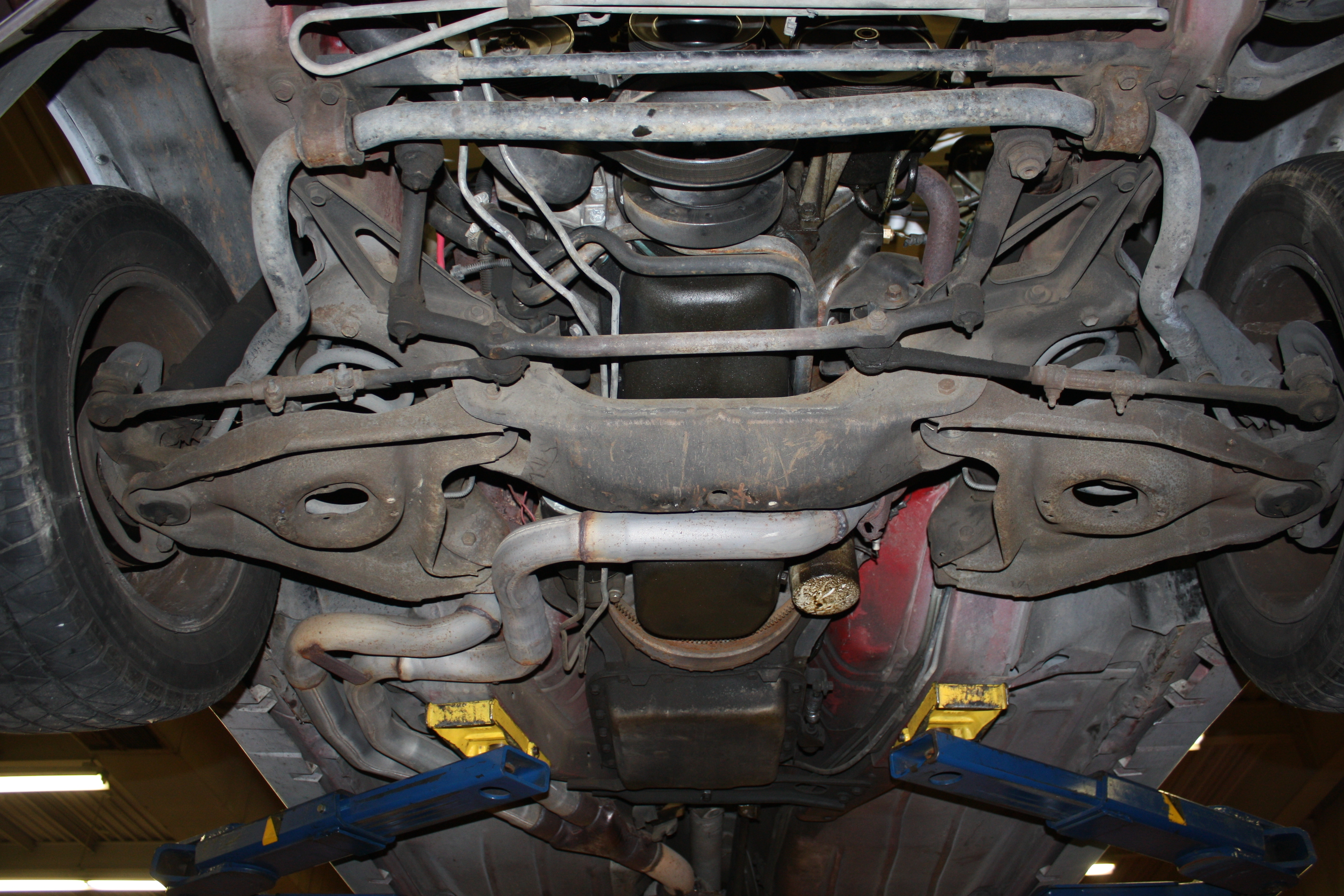 This type of suspension is called the McPherson Modified Front Strut Suspension. The bushings were surprisingly in decent condition, with the exception of the torque rod bushing, which was ripped apart and crumbling. The torque converter cover was MIA and I had to go to the junkyard for a replacement.